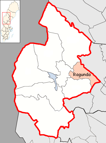 Ragunda Municipality in Jämtland County Designd by me, based on Image:Jämtland County.png